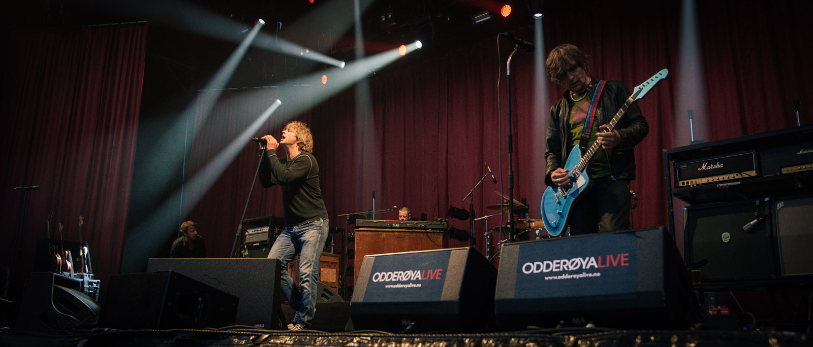 Dumdum Boys performing at Odderøya Live 2013